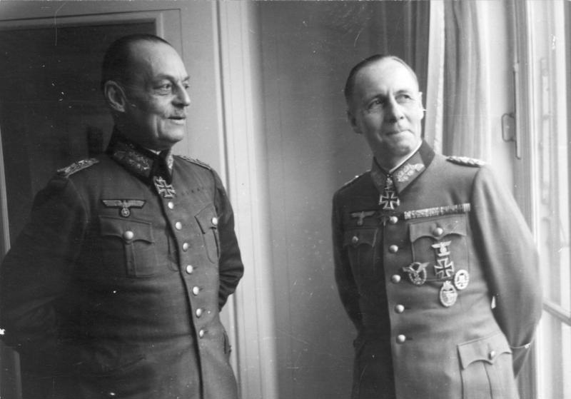 Information added by Wikimedia users.Conversation between Commander in Chief West Gerd von Rundstedt and Field Marshall Erwin Rommel at the George V hotel in Paris, France.